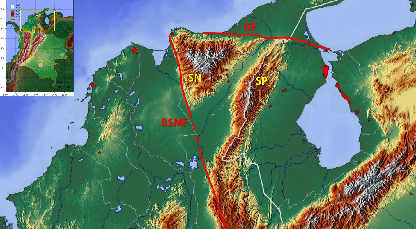 Topographic map of the Cesar-Ranchería Basin in northeastern Colombia. OF = Oca Fault SP = Serranía del Perijá BSMF = Bucaramanga-Santa Marta Fault SN = Sierra Nevada de Santa Marta Base map from open Faults drawn from publications referenced in the wiki article